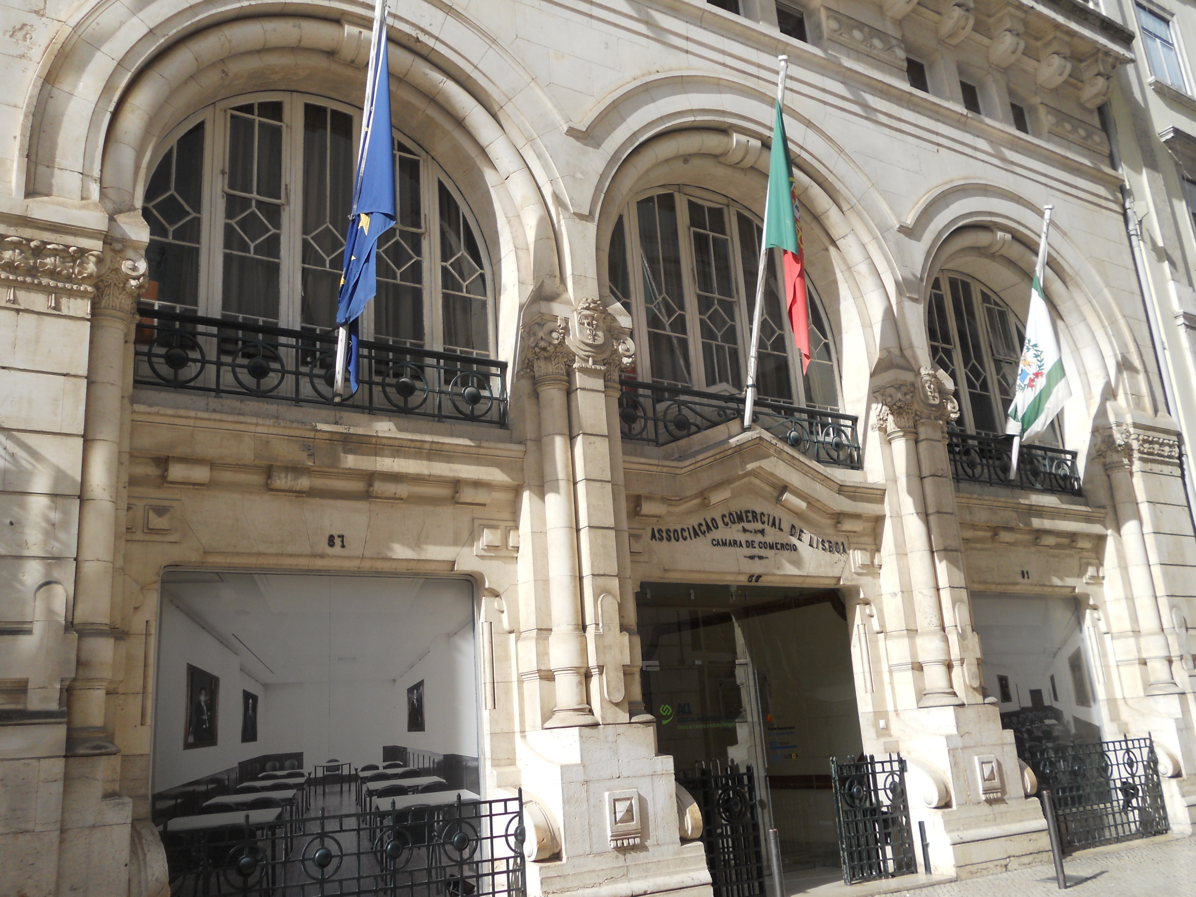 Main facade of the Portuguese Chamber of Commerce and Industry headquarters at Rua das Portas de Santo Antão in Lisbon